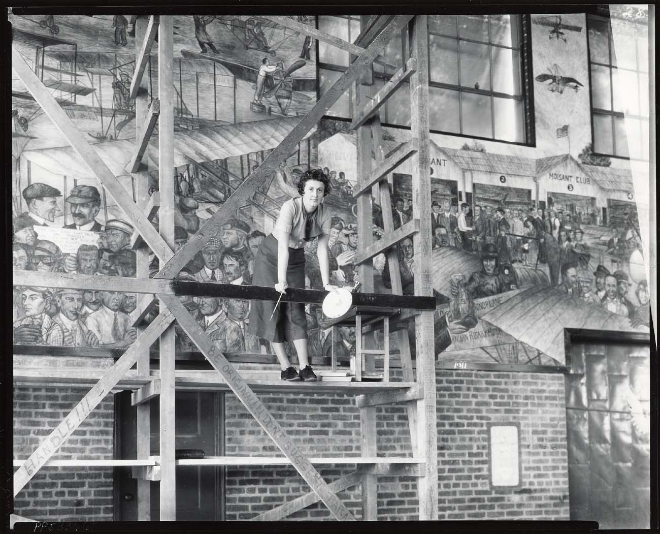 Description: Aline H Rhonie was known as a flying artist for her work encouraging female participation in the air defense program and British War Relief. She learned mural painting from Diego Rivera and painted the large aviation themed fresco mural in Hangar F at Roosevelt Field. Creator/Photographer: Peter A. Juley & Son Medium: Black and white photographic print Dimensions: 8 in x 10 in Culture: American Date: c. 1935 Persistent URL: [1] Repository: Archives of American Art Native nameArchives of American ArtLocationWashington, D.C.Coordinates38° 53′ 52″ N, 77° 01′ 22″ W Established1954Website control : Q2860568 VIAF: 151134814 ISNI: 0000 0001 2185 0758 LCCN: n79065944 NLA: 35007823 GND: 1085306631 WorldCat Collection: Peter A. Juley & Son Collection - The Peter A. Juley & Son Collection is comprised of 127,000 black-and-white photographic negatives documenting the works of more than 11,000 American artists. Throughout its long history, from 1896 to 1975, the Juley firm served as the largest and most respected fine arts photography firm in New York. The Juley Collection, acquired by the Smithsonian American Art Museum in 1975, constitutes a unique visual record of American art sometimes providing the only photographic documentation of altered, damaged, or lost works. Included in the collection are over 4,700 photographic portraits of artists. Accession number: J0033661